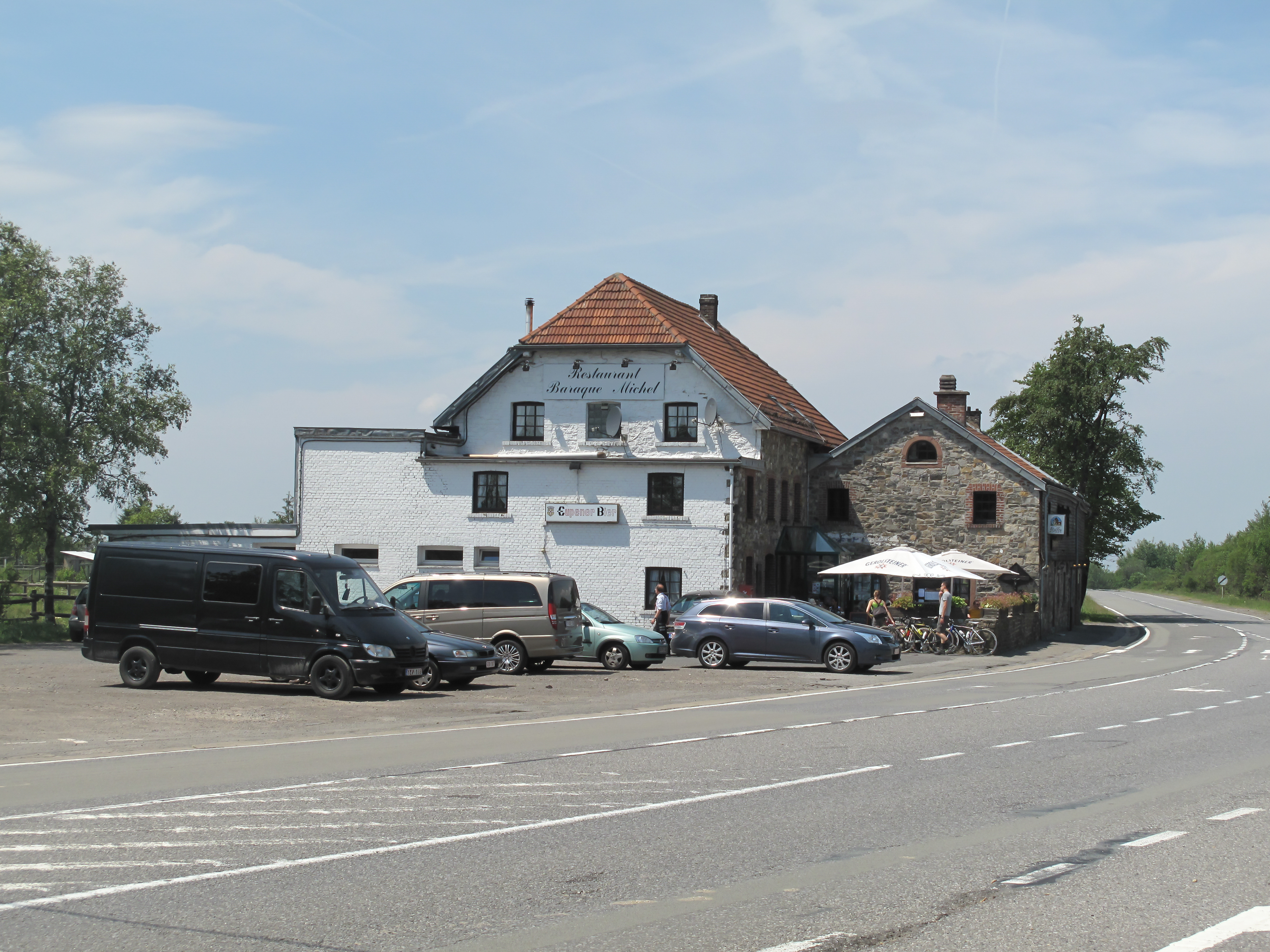 Baraque Michel, restaurant Baraque Michel